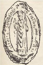 Zeichnung eines Siegels des Speyerer Bischofs Friedrich von Bolanden (+ 1302)